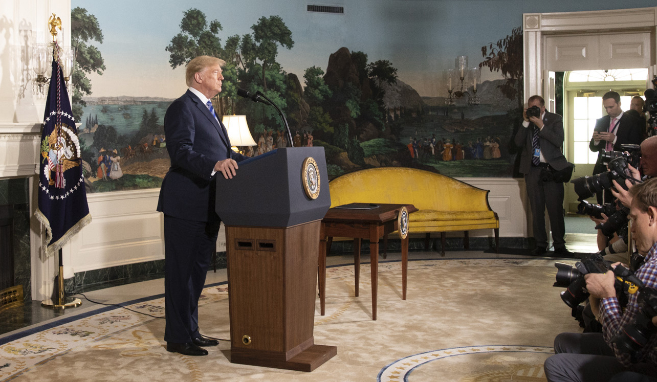 President Donald J. Trump delivers remarks on the Joint Comprehensive Plan of Action